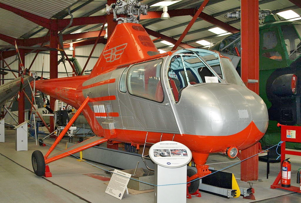 Westland Widgeon (WS-51A) on display at the Helicopter Museum, Weston-super-Mare.